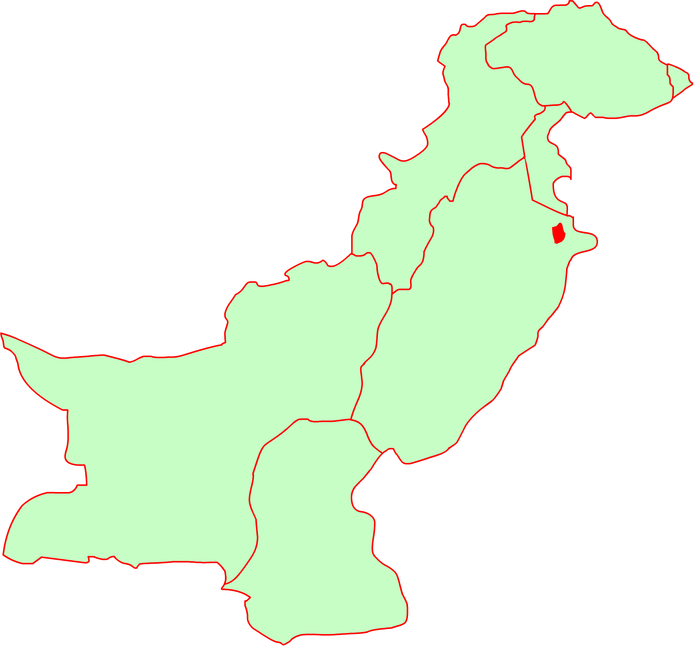 Location of Daska